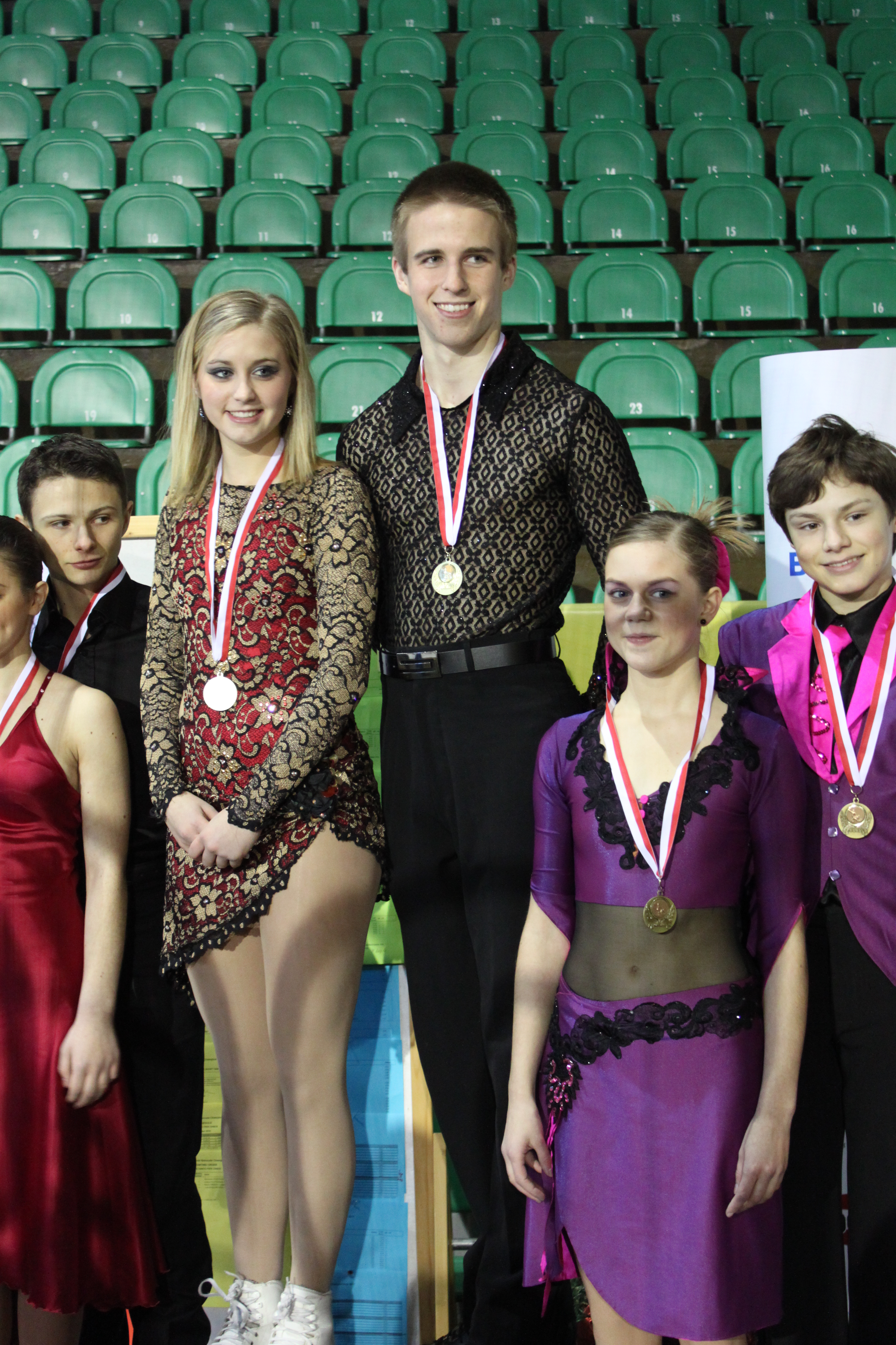 Baily Carroll and Peter Gerber - Podium 2010-2011 Polish National Championships, Slovakia